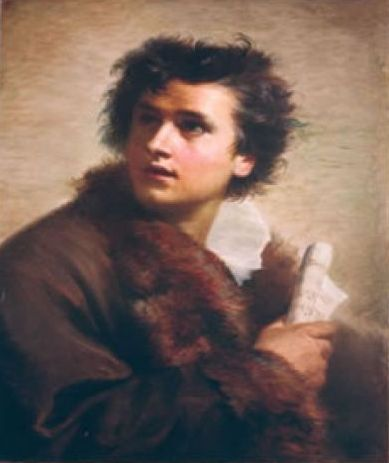 Portrait of Nicola Antonio Manfroce (1791-1813)